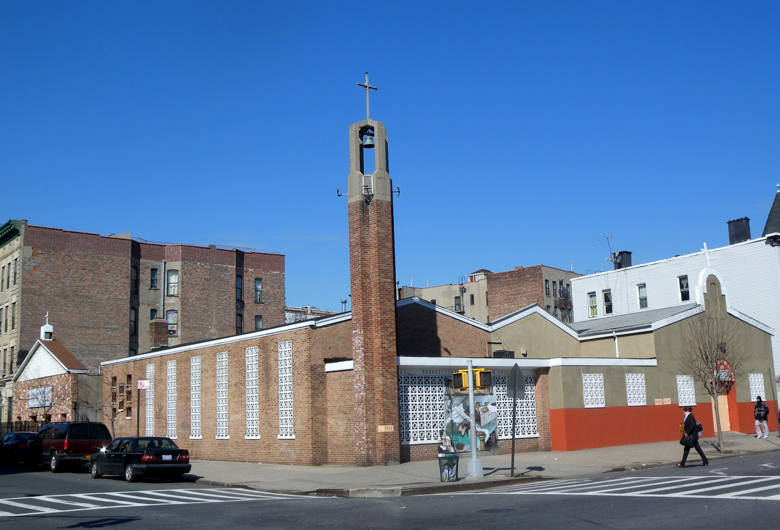 Looking northwest across Prospect Avenue at Transfiguration Church on a sunny midday.